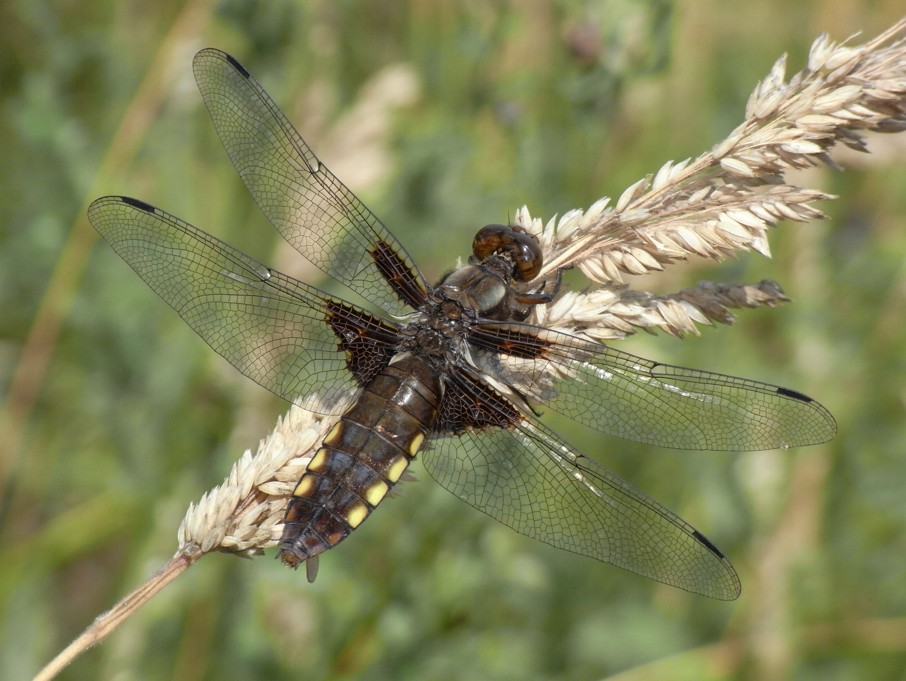 Female Broad-bodied Chaser (Libellula depressa), aged specimen near Hamburg, Germany.